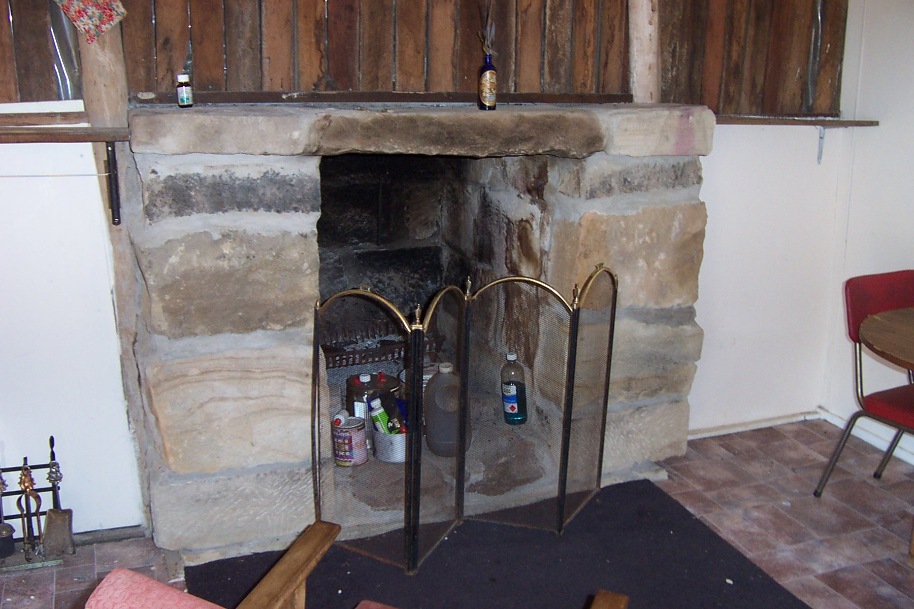 Interior, showing stone fireplace, slab hut originally built to accommodate travelling stockmen. Paynes Crossing Road, Wollombi, NSW Australia